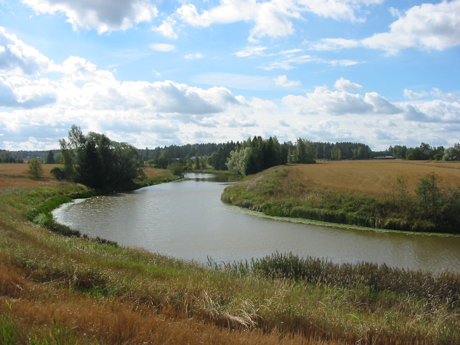 River Paimionjoki in Prunkila, Marttila, Finland Proper seen from Häme Oxen road (Connecting road 12307)